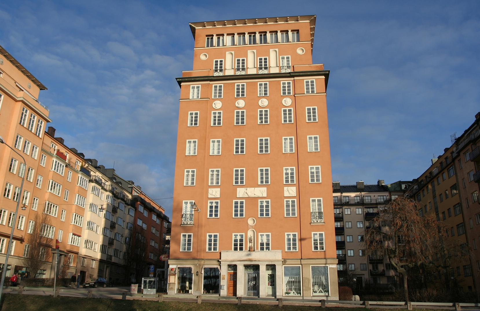 The house at Norr Mälarstrand 76 Stockholm